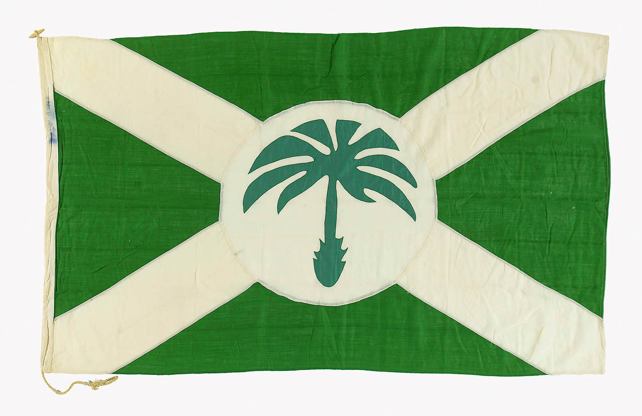 Palm Line House Flag